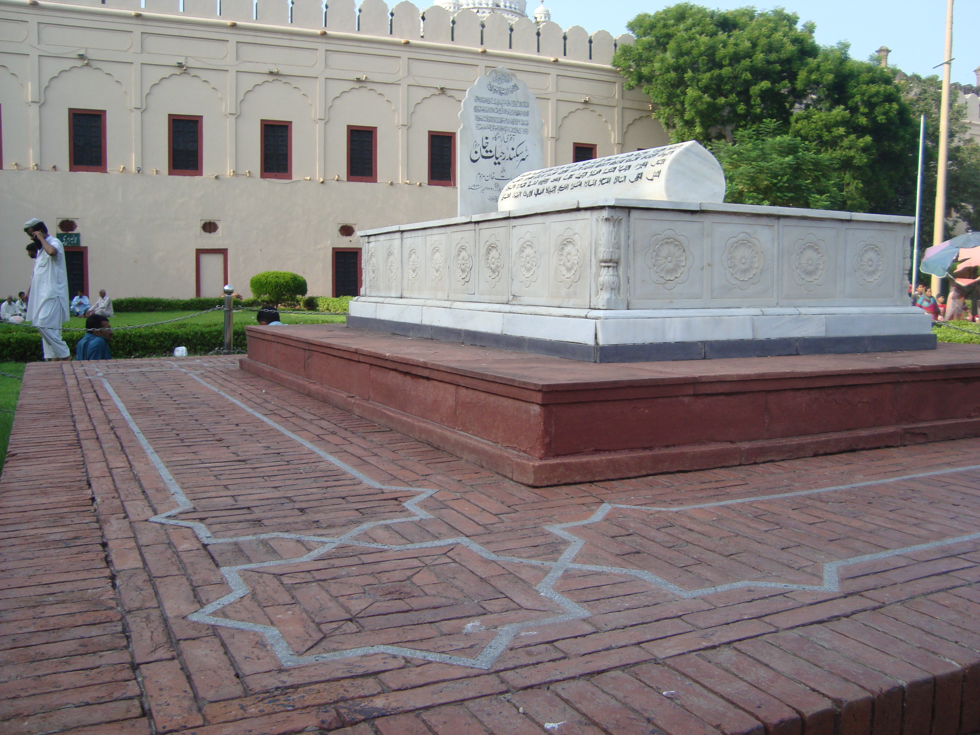 Hazuri Bagh This is a photo of a monument in Pakistan identified as the PB-60